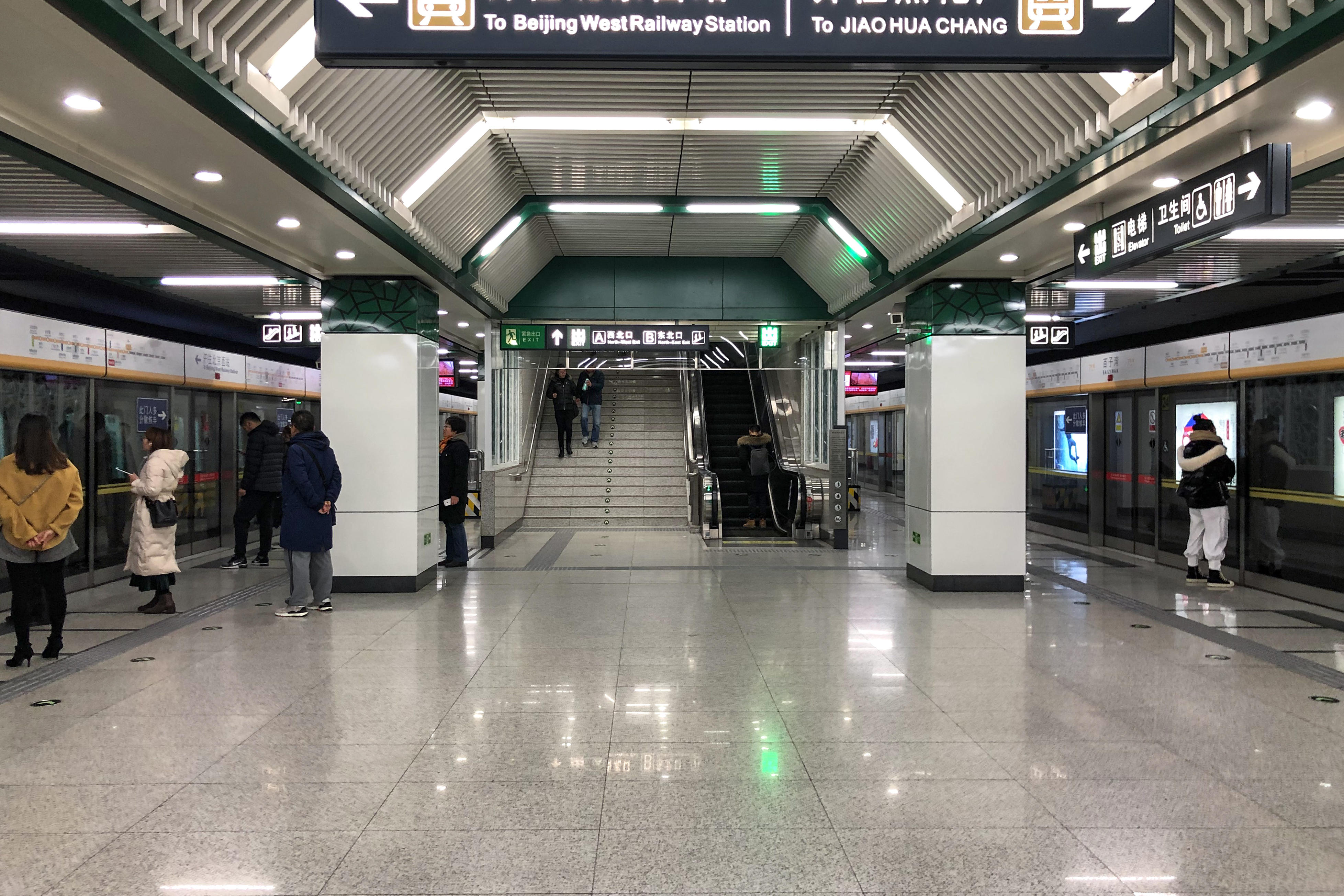 Dark green as theme.